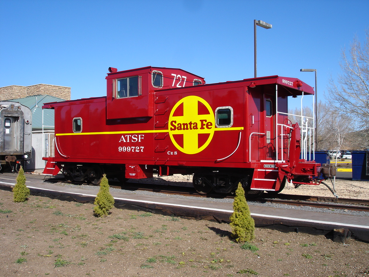 ATSF Caboose 999727 On display at the Williams train station.